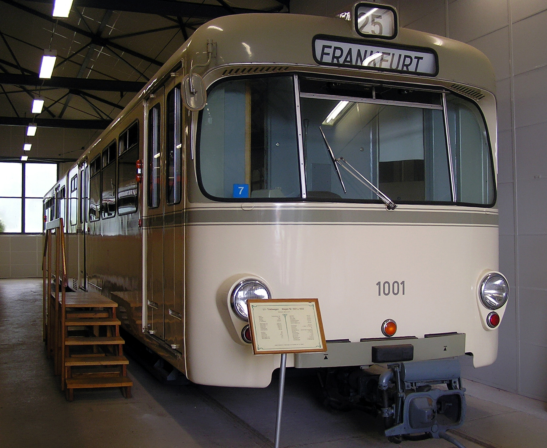 U1-car 1001, first light rail vehicle of Frankfurt, in the Frankfurt Transport Museum